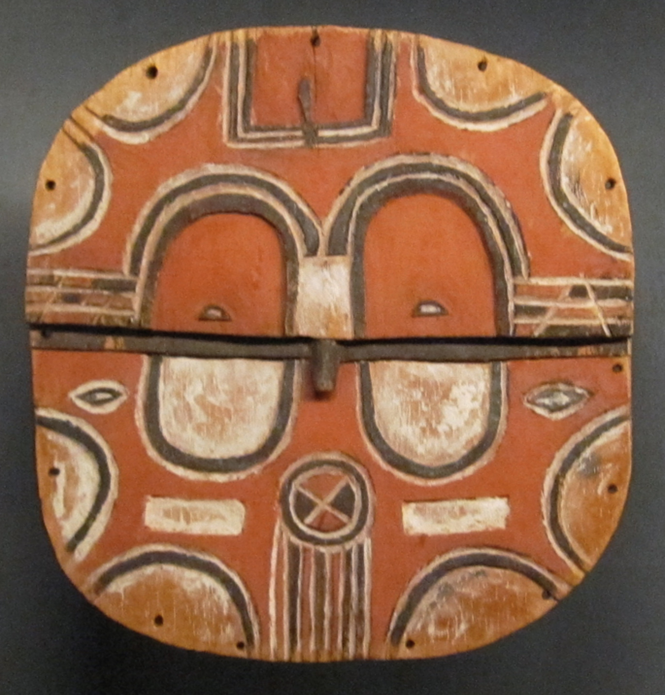 Kidoumou mask. Teke Tsayi (Congo). Wood, pigments, D. 32.7 cm. Paris, Museum of Man (at the quai Branly Museum in 2019). Inv. 32 89 82. Don Victor Babet, 1932. Selected bibliography: Marie-Claude Dupré 1968, 1981, 1998 (exhibition "Batéké: Painters and sculptors of Central Africa", pp. 258, 259). Lehuard, 1972, 1995.